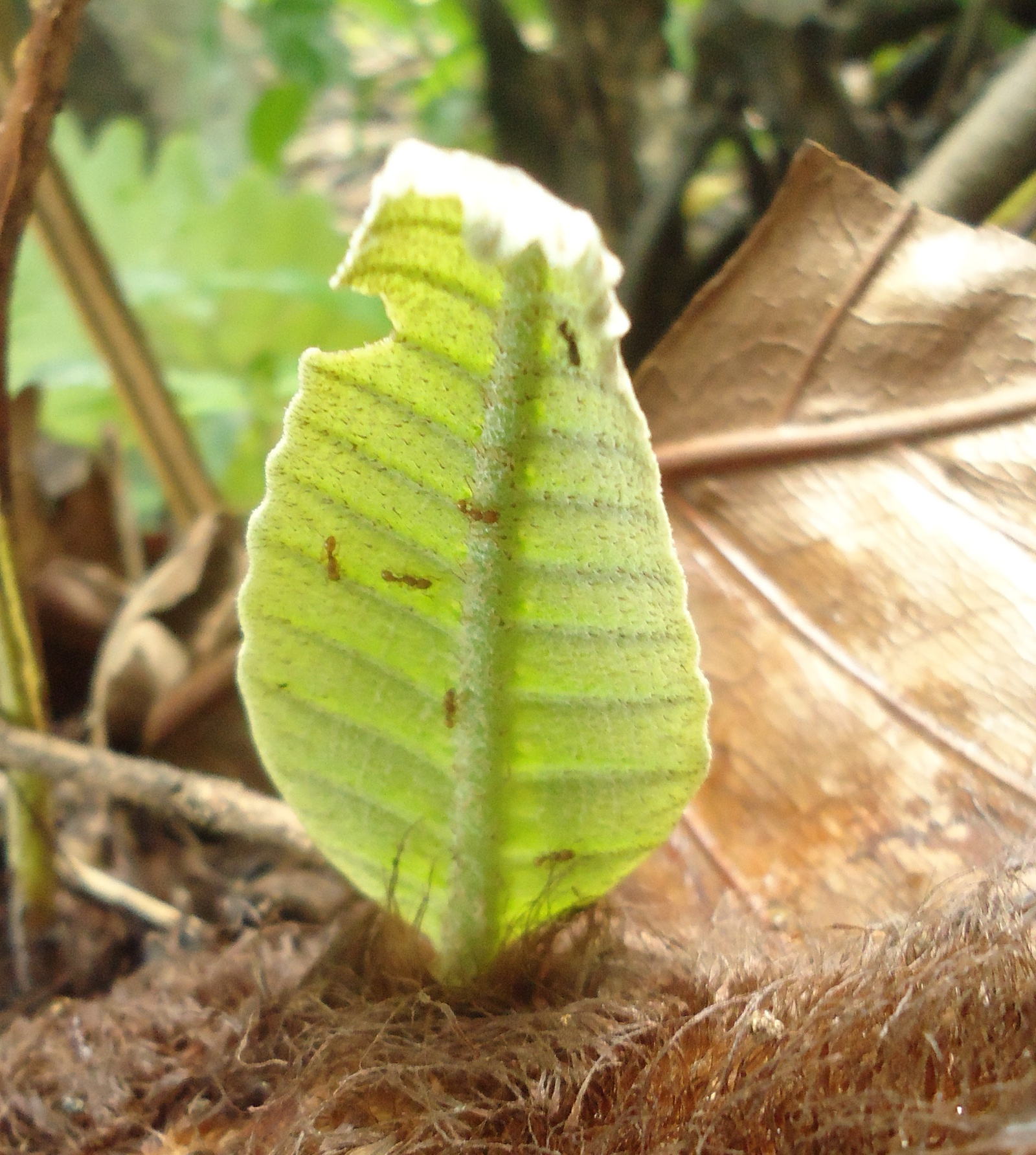 Ants feeding on nectar secretions on the underside of a Drynaria quercifolia leaf.